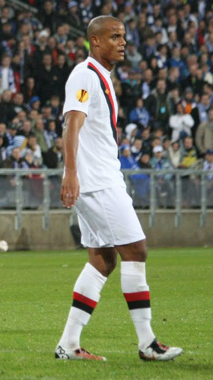 Joleon Lescott, Vincent Kompany Lech Poznań vs Manchester City FC, 4 November, 2010